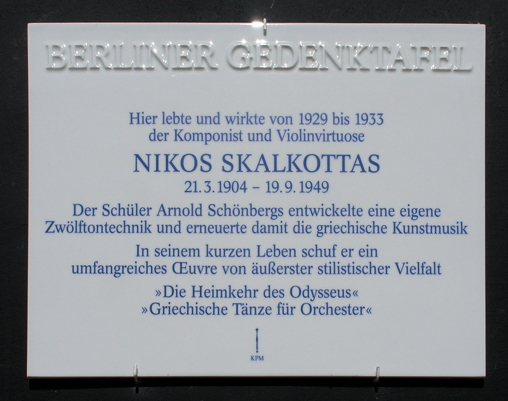 Berlin memorial plaque, Nikos Skalkottas, Nürnberger Straße 19, Berlin-Charlottenburg, Germany